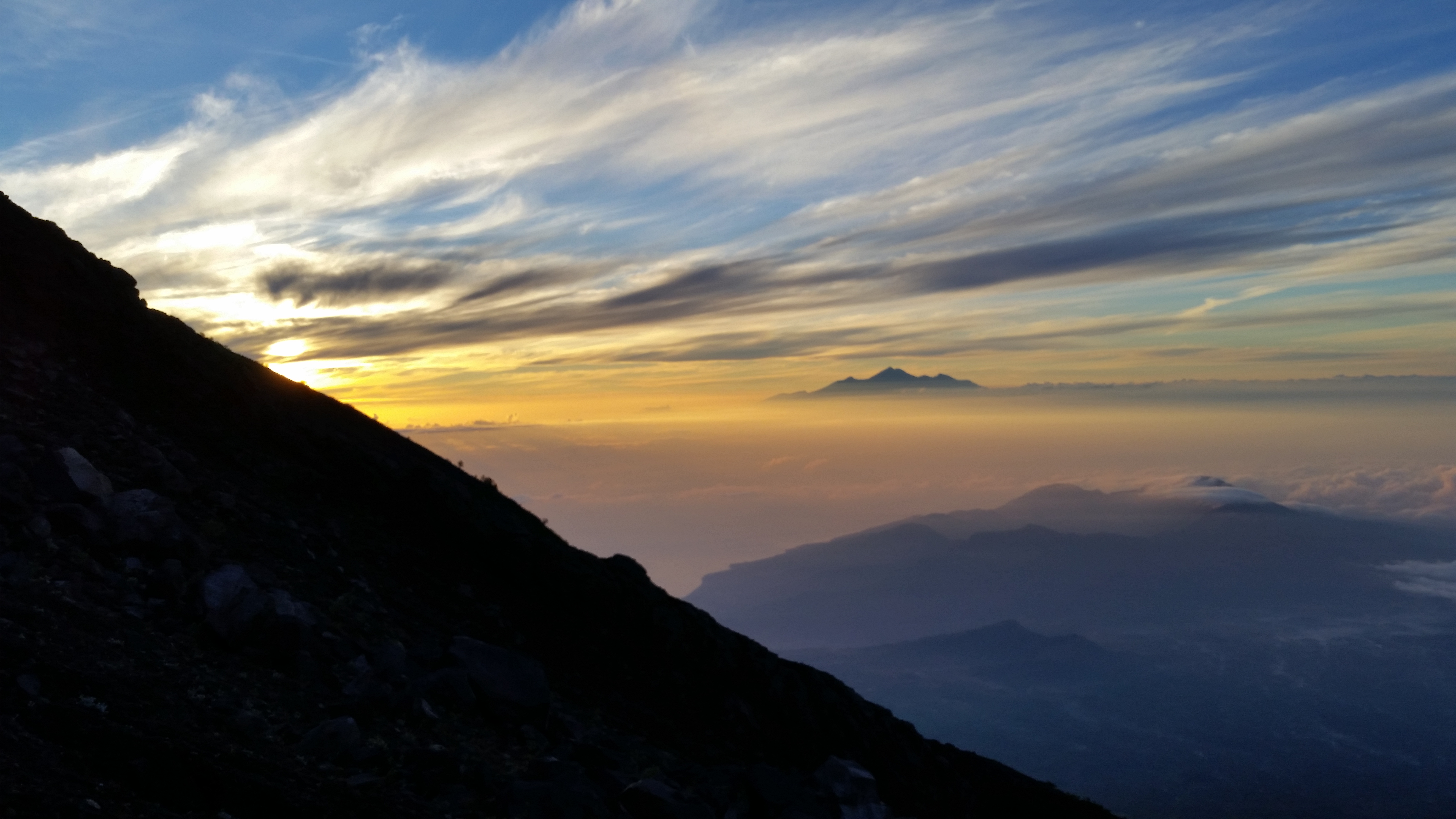 Taken during a descension of Mount Agung, the highest peak on Bali, you can see the highest peak of the island of Lombongon through the sunlight and clouds.